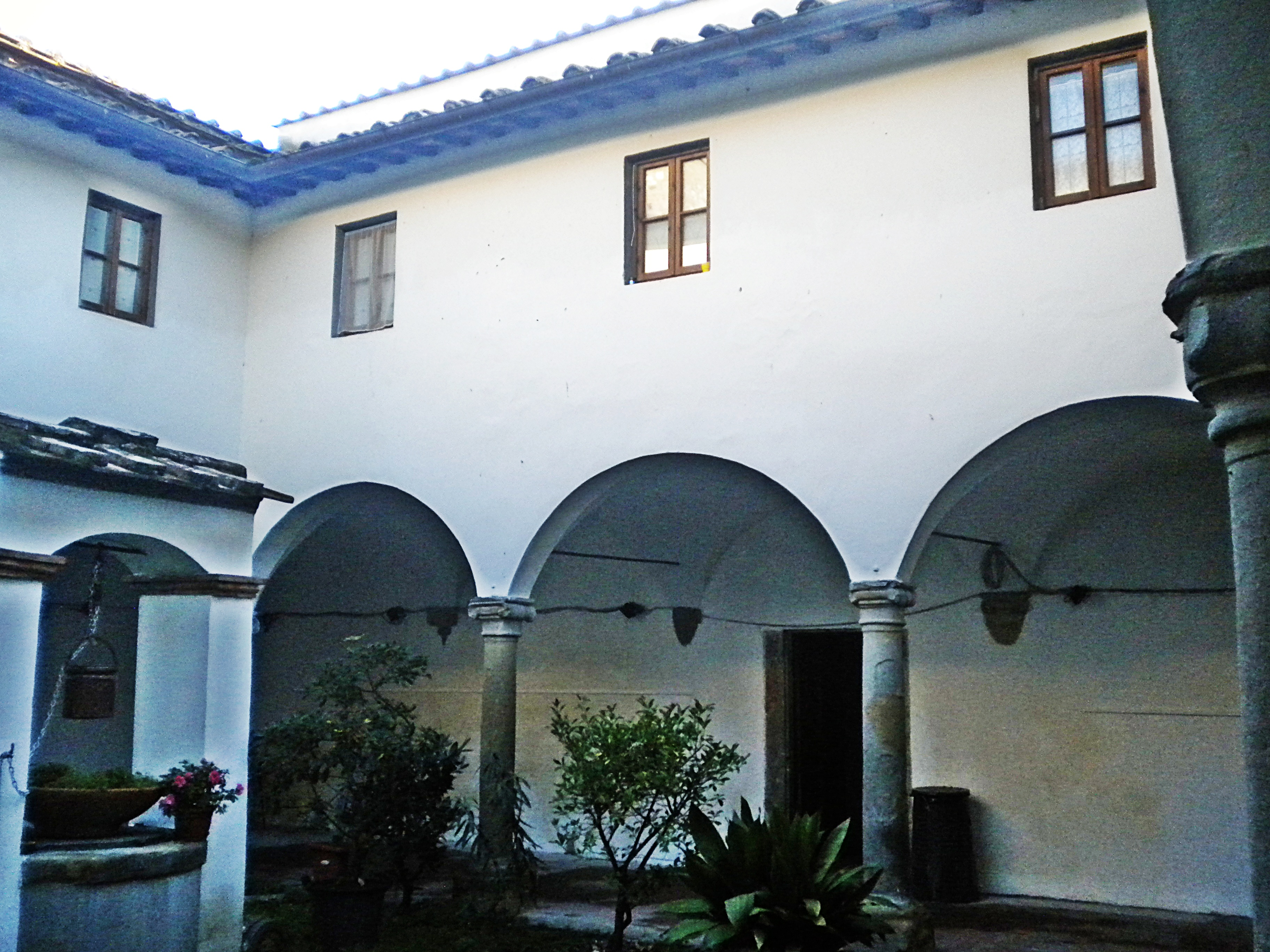 cloister